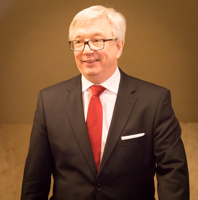 Karl Eirik Schjøtt-Pedersen at Governor Øystein Olsen's annual address in February 2017.